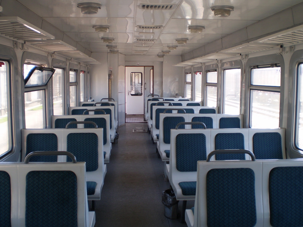 Interior of car № 1 ofdiesel multiple unit train D1-733